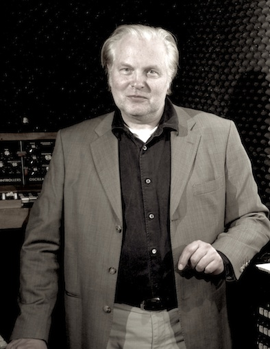 Johannes Schmoelling